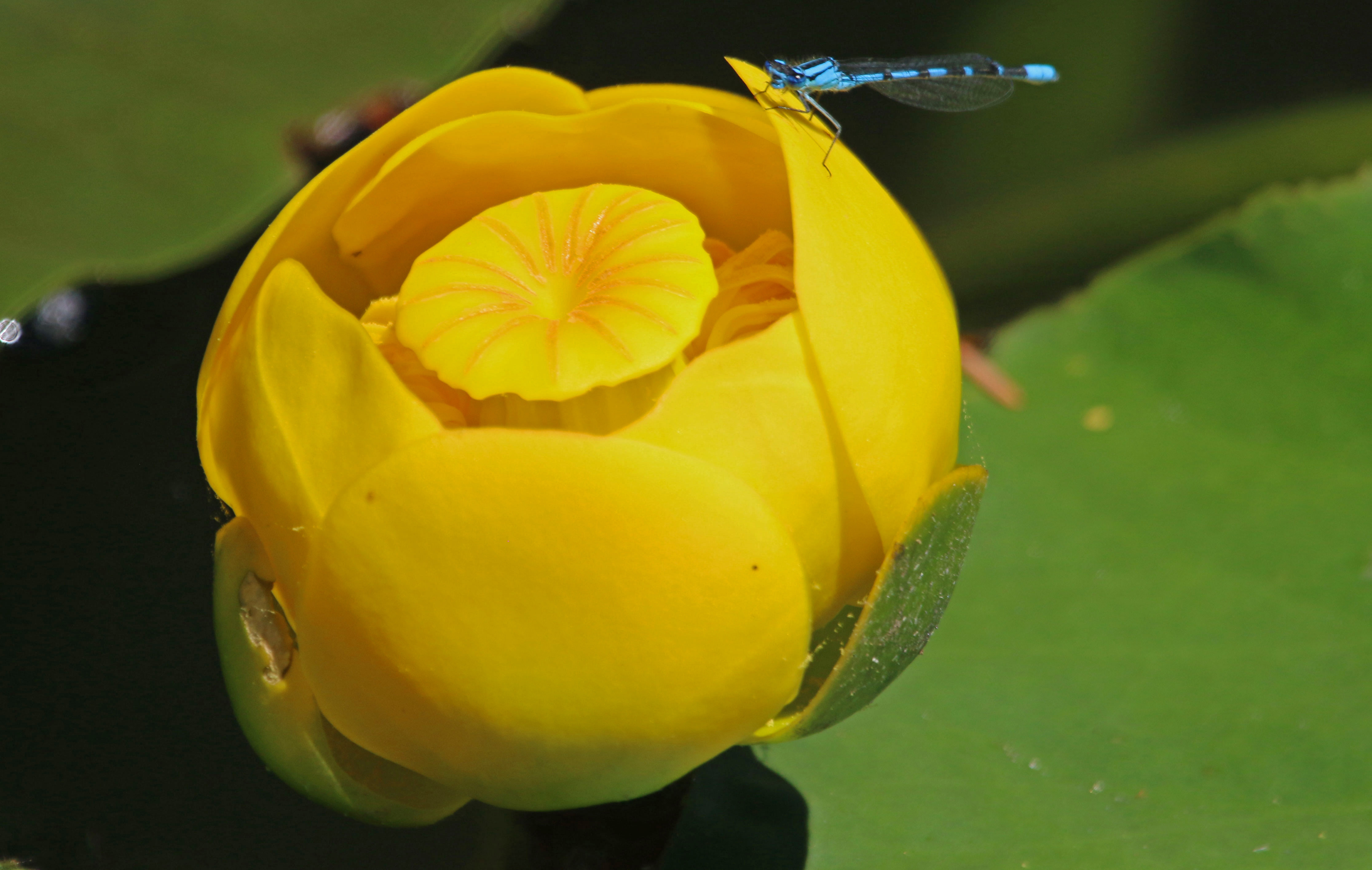 Spatterdock (Nuphar polysepala) You are free to use this image with the following photo credit: Peter Pearsall/U.S. Fish and Wildlife Service